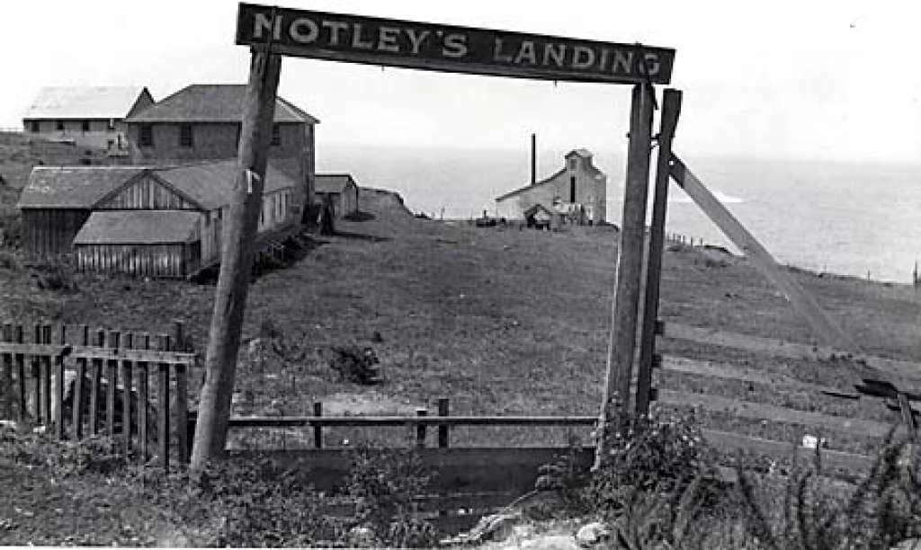 William and Godfrey Notley built a landing at this point on the Big Sur coast, about 11 miles south of Carmel, to ship lumber and to receive goods via small coastal steamers. Its was used heavily from between 1903 and 1907, and a small settlement grew up around it for a few years.